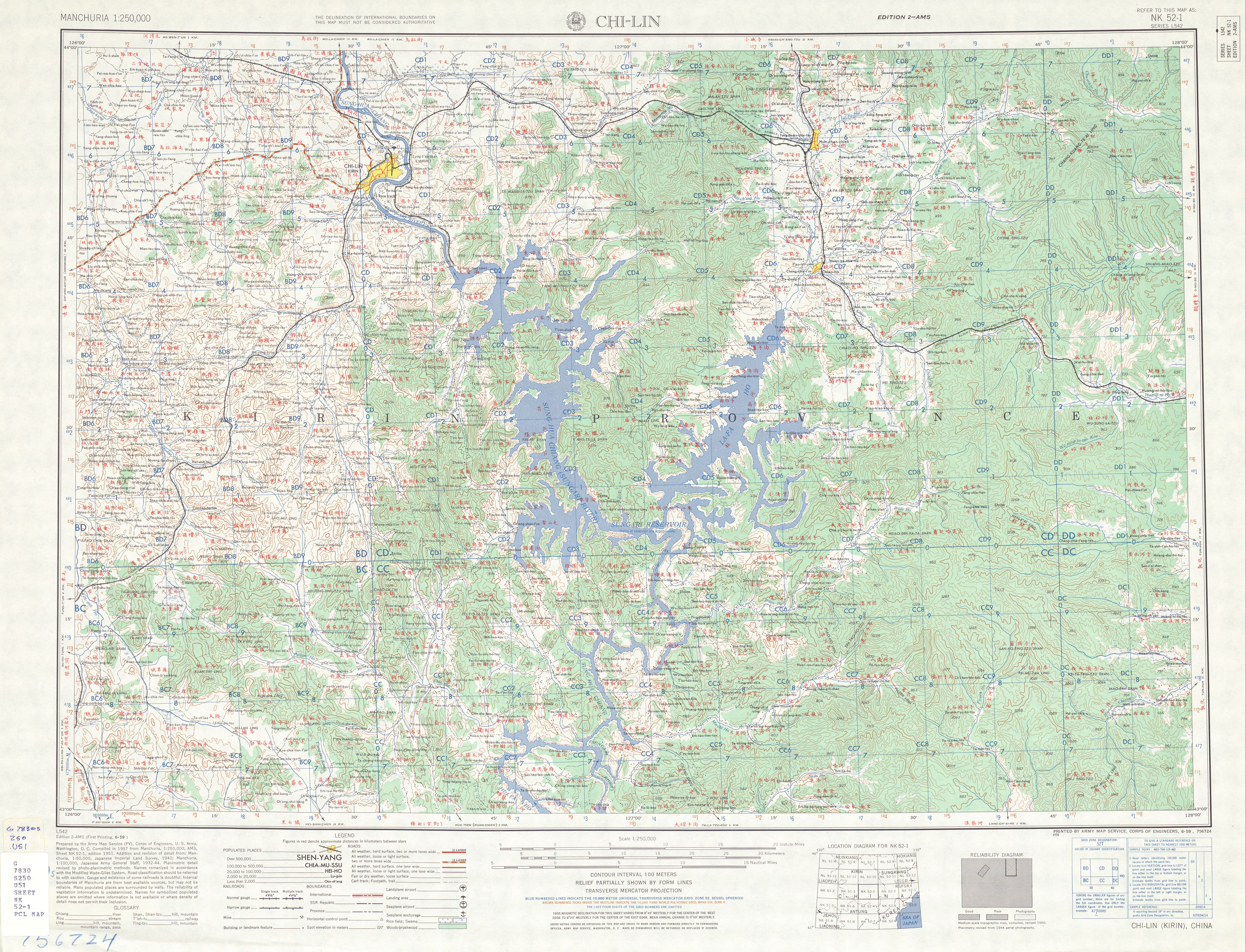 Manchuria AMS Topographic Maps